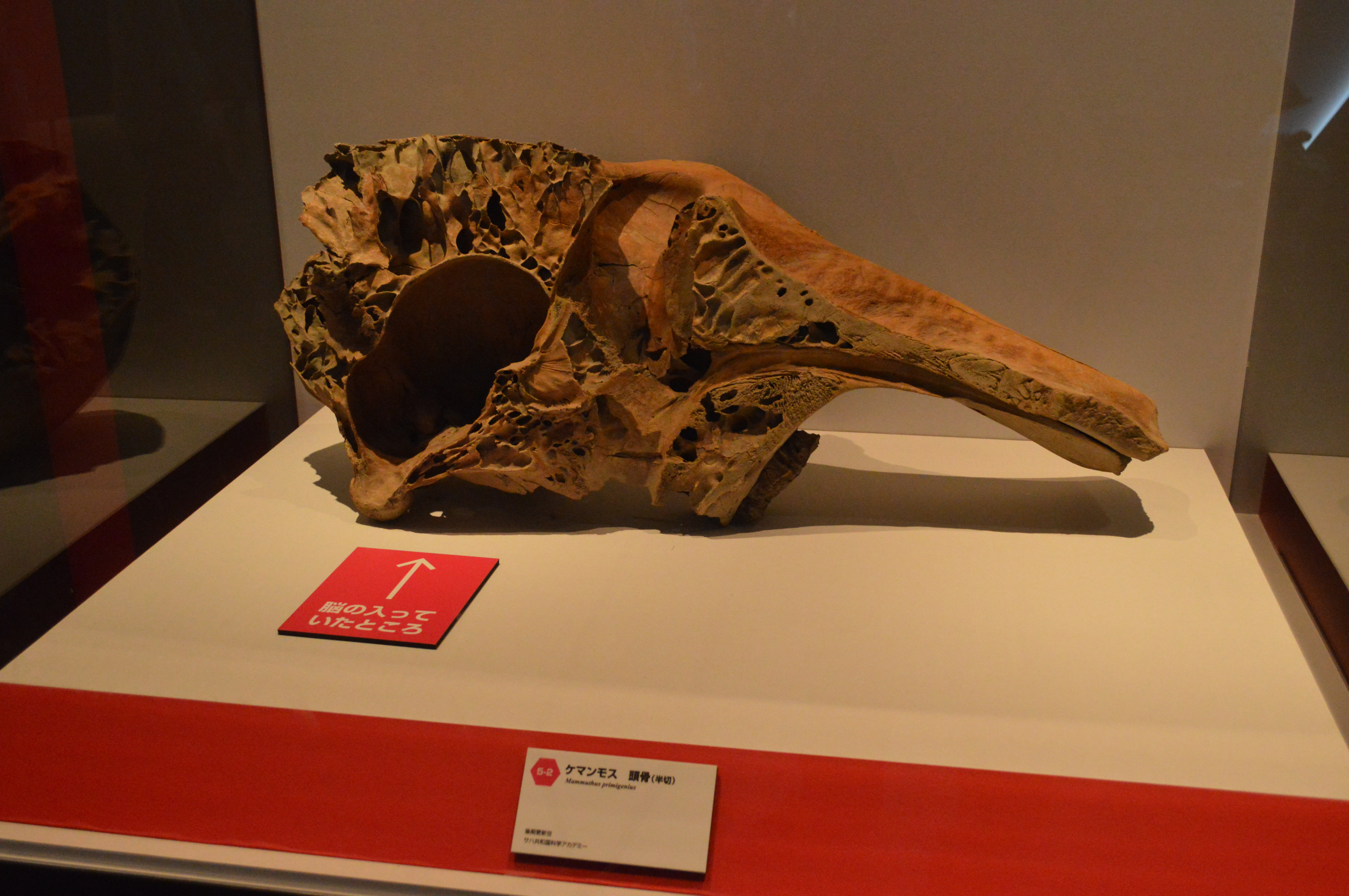 Half skull of an actual Mammuthus primigenius (not Yuka). The cavity that the arrow is pointing is where the brain would've been.